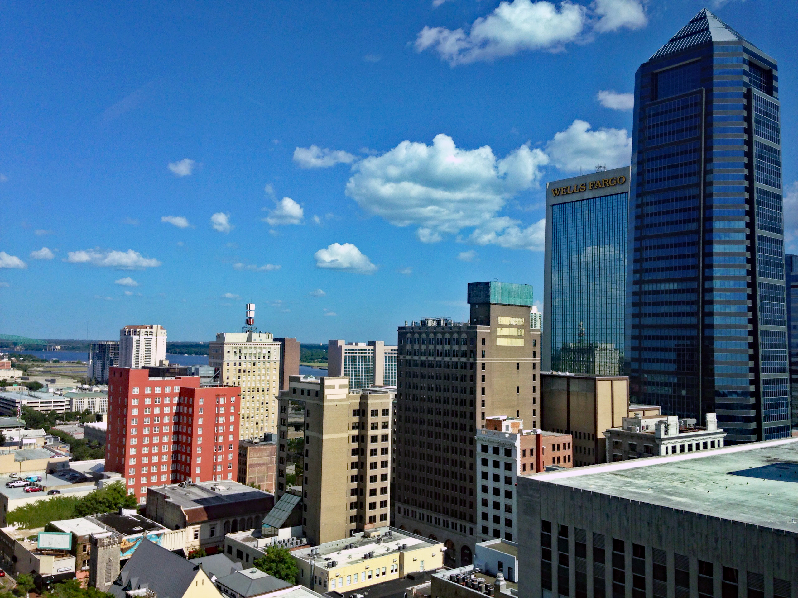 Downtown, Jacksonville, Florida 32202